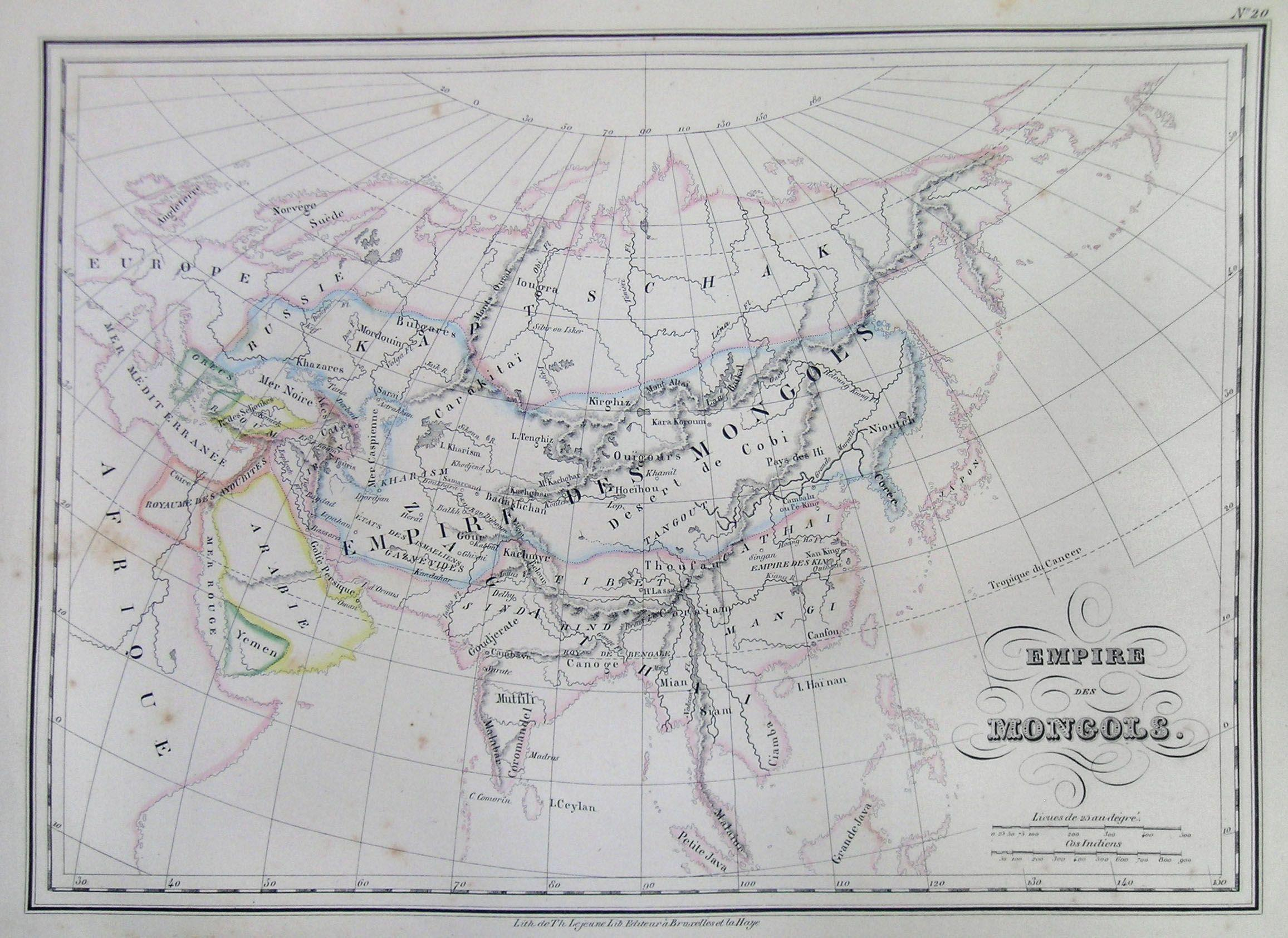 This is a beautiful 1837 hand colored map Europe and Asia under the domino of the Mongol Empire as established by the Golden Horde under Genghis Khan. All text is in French.